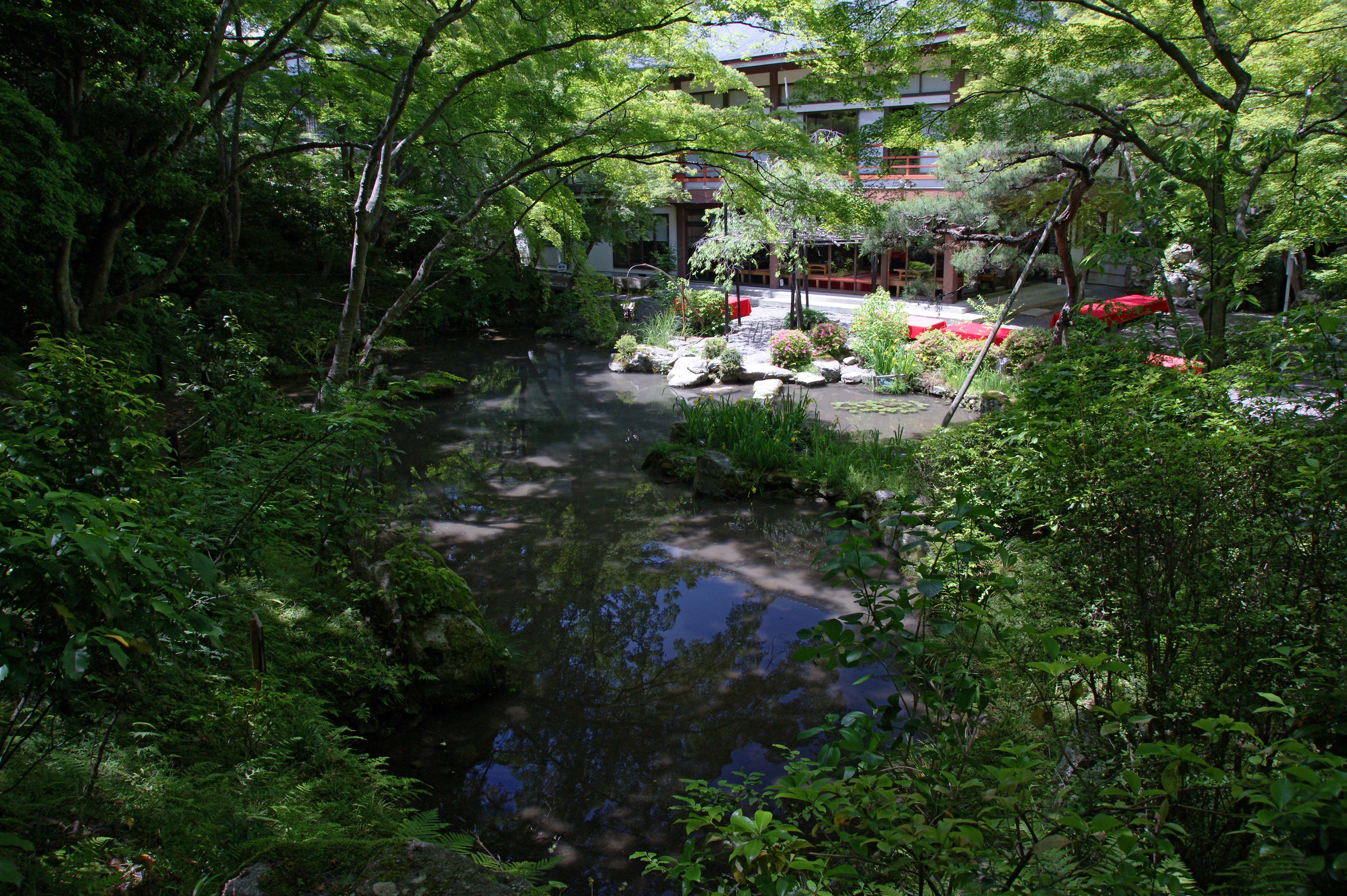 Old Byakugoin in Sakamoto, Otsu, Shiga prefecture, Japan